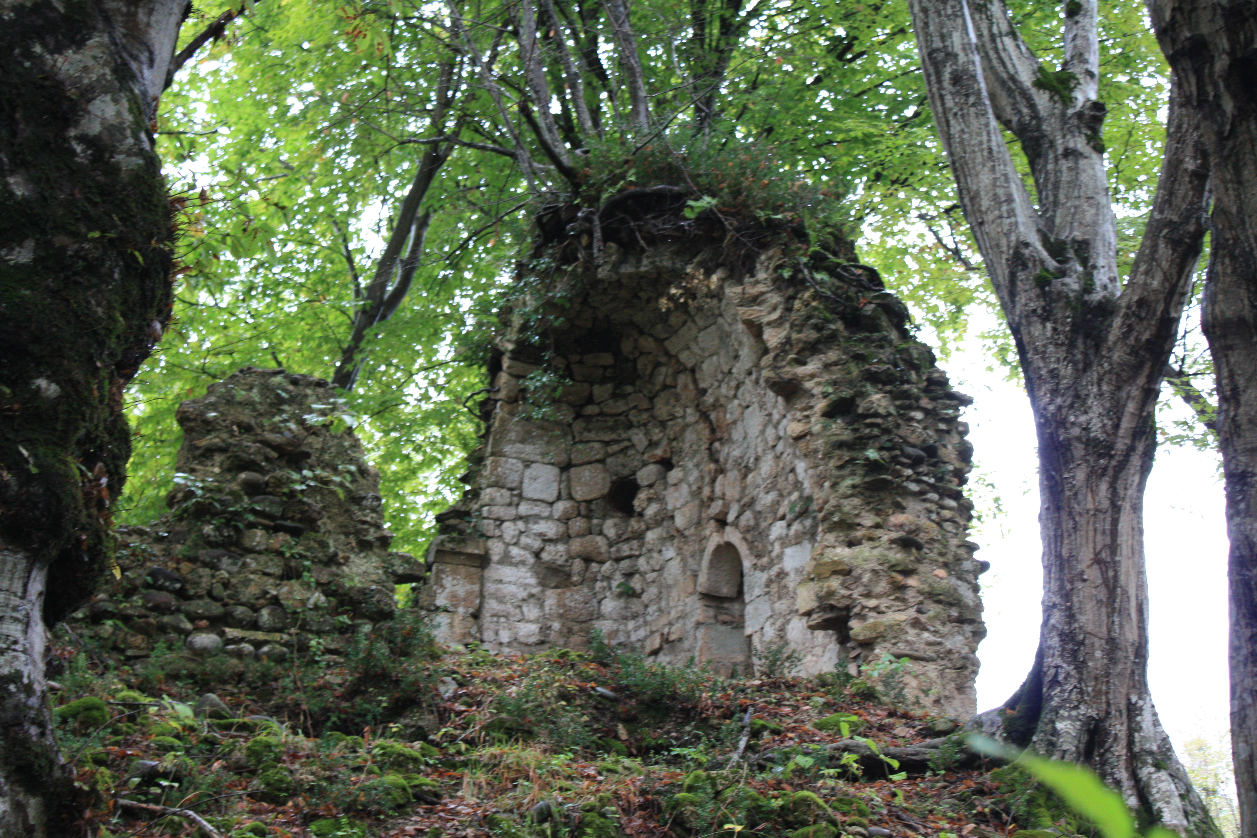 Ruins of ancient church in the village of Reka, Ochamchira district of Abkhazia